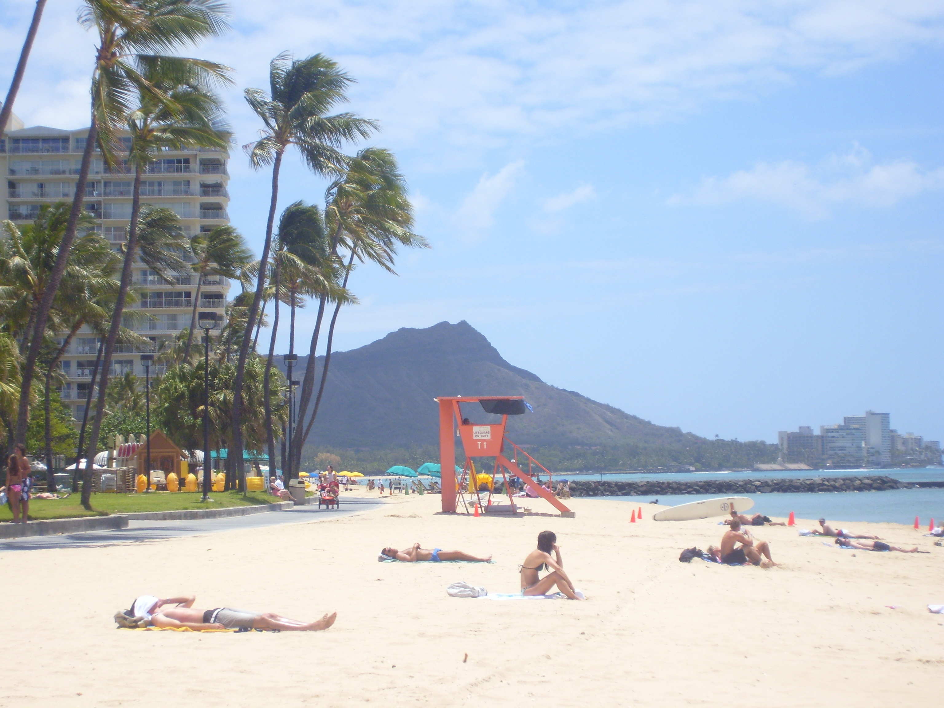 Picture of Diamond head from Waikiki taken by myself